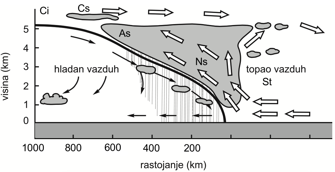 Топли фронт